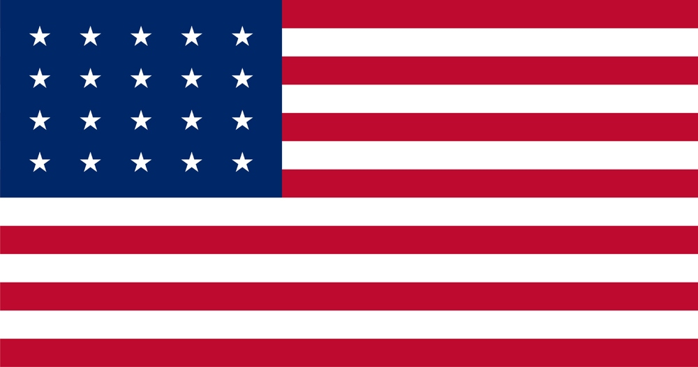 Flag of the United States of America from July 4, 1818 to July 3, 1819